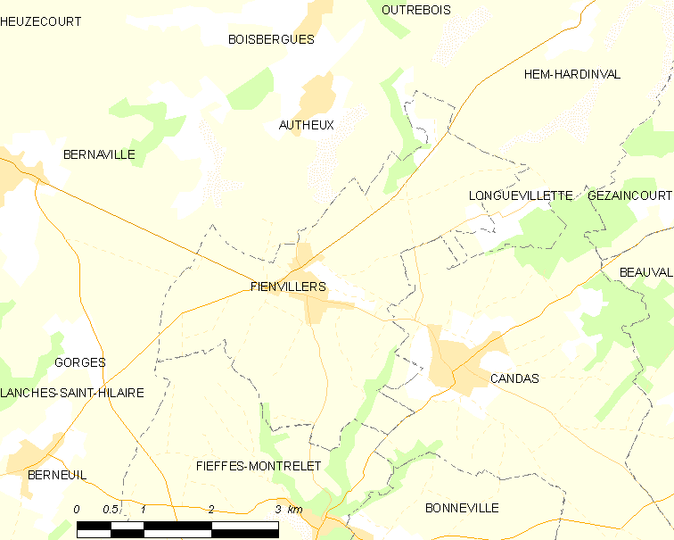 Map of French municipality Fienvillers